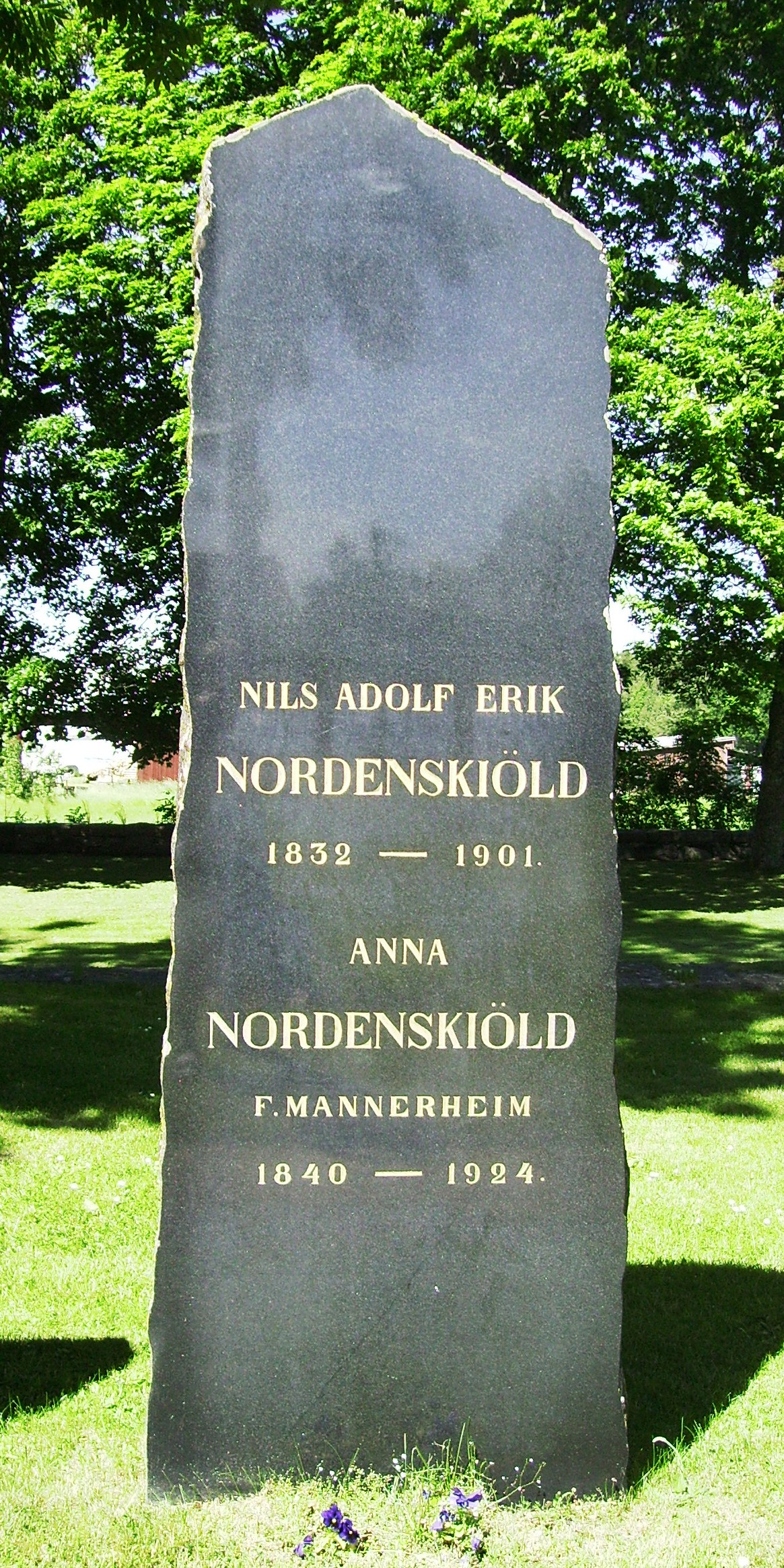 Picture of Adolf Erik Nordenskiöld's grave at Västerljung cemetary